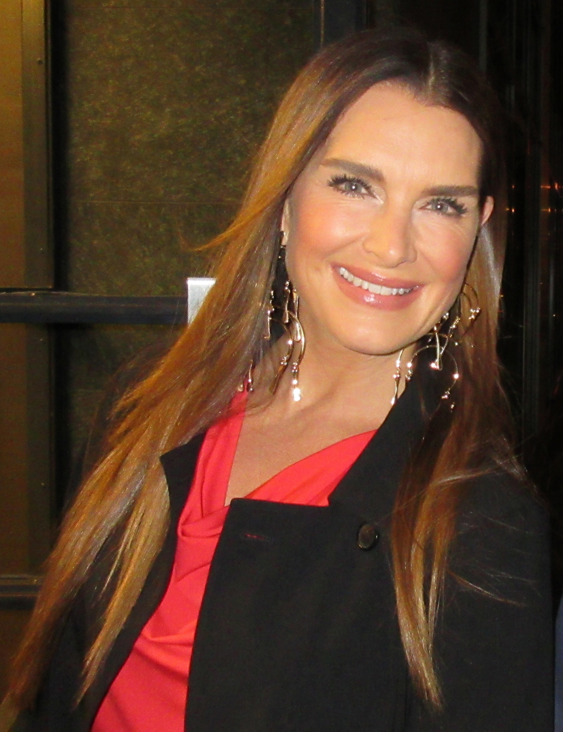 Star of Freaked, The Blue Lagoon, and Suddenly Susan. NYC Feb '18.